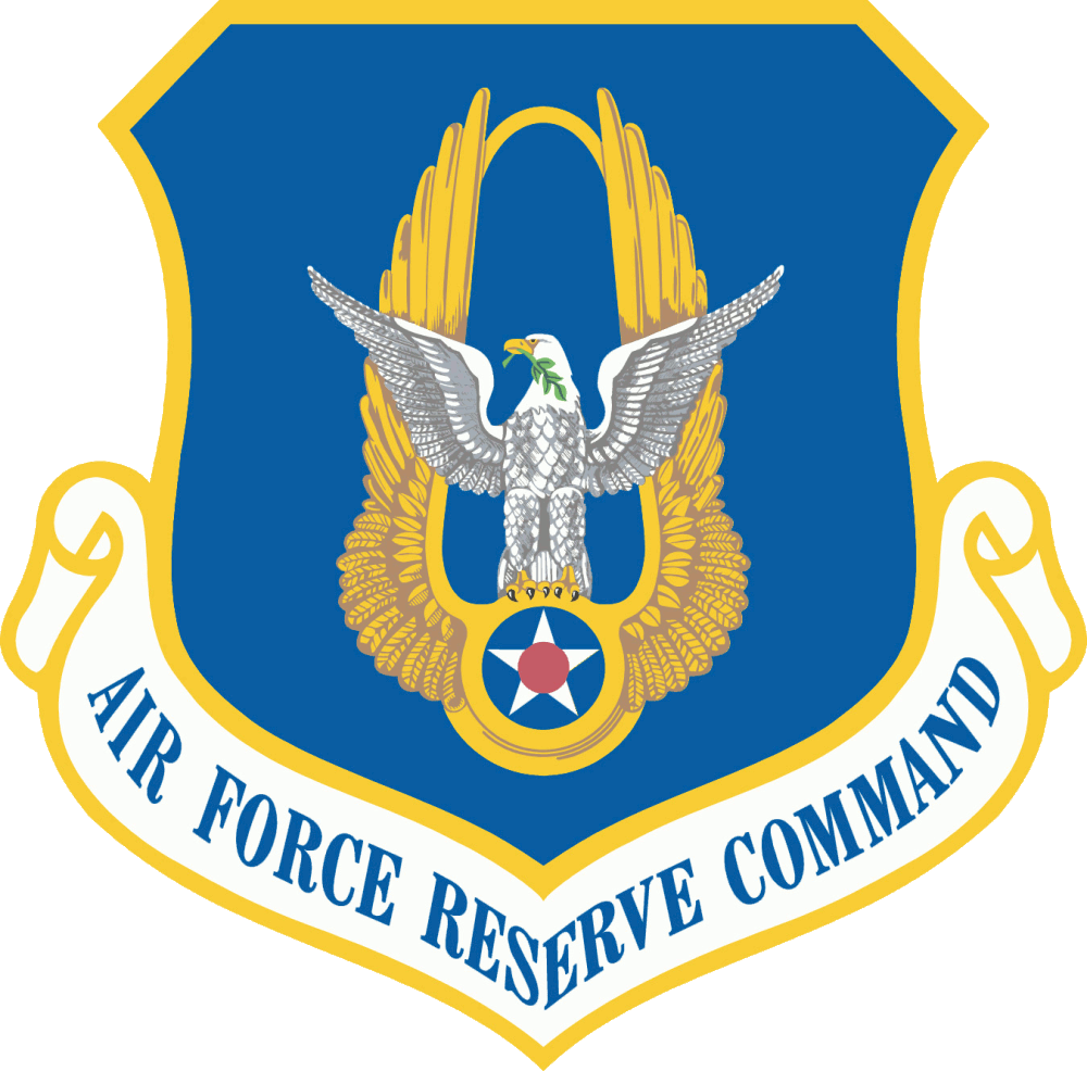 Emblem of Air Force Reserve Command of the United States Air Force